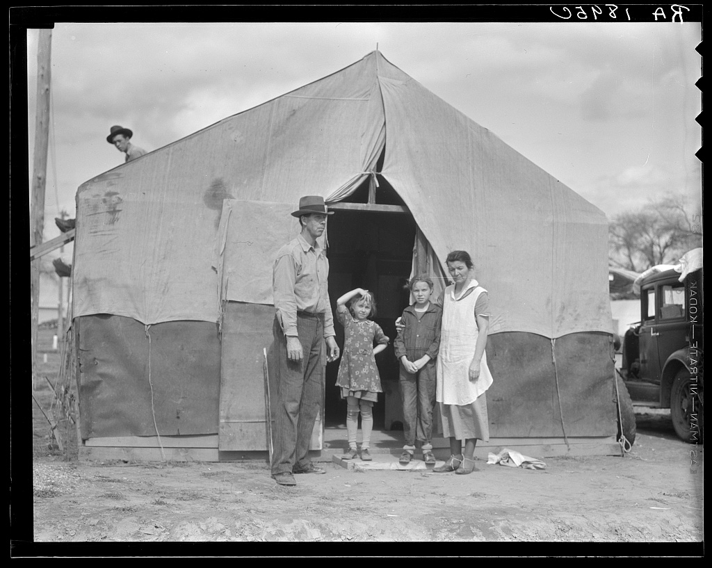 Photo by Dorothea Lange of a migrant family in Kern County. This family was sent back at the state line by the Los Angeles police. Refused entrance into California, and it was only after they had gone back to Arkansas to borrow fifty dollars cash to show at the border that they were permitted to enter. 1936